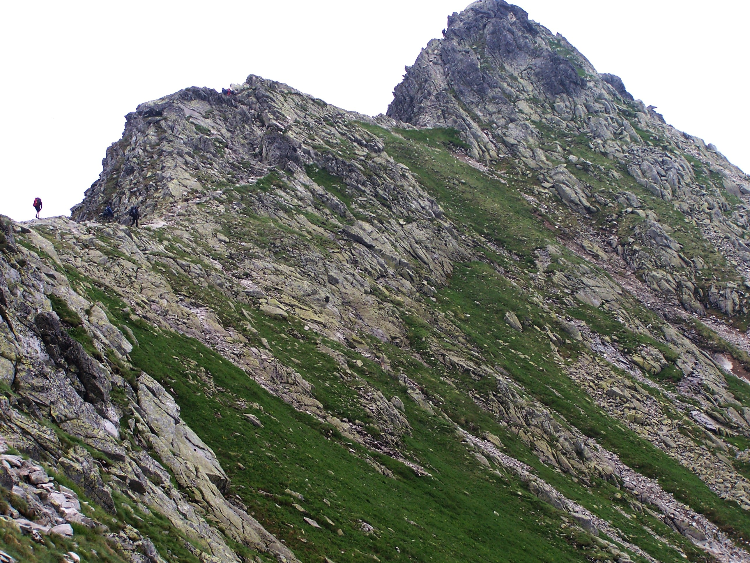 Mały Kozi Wierch (Orla Perć, High Tatra Mountains)